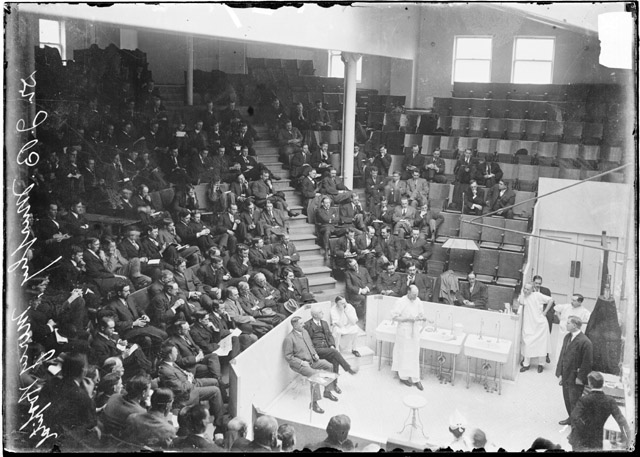 Image of Dr. John B. Murphy conducting a clinic at Mercy hospital, showing Dr. Murphy, looking at something he is holding in his hands, standing on a platform with other men in the center of an auditorium whose seats are filled with men.